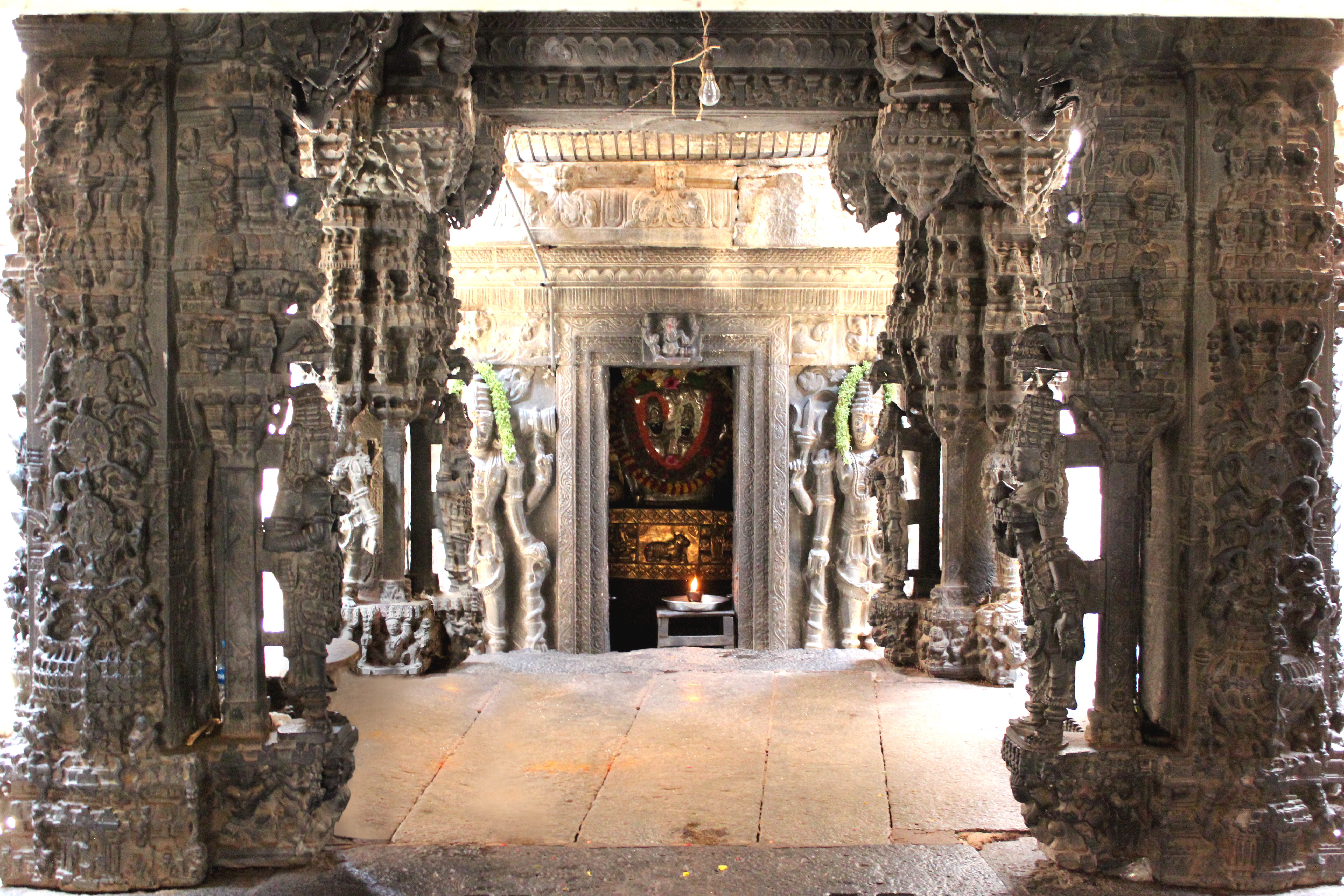 This photograph was taken at the Bhoganandishvara temple (also spelt Bhoganandishwara or Bhoganandeeshvara) at the foot of Nandi Hills, Chikkaballapur district, Karnataka state, India. The temple was originally consecrated during the rule of a local Bana dynasty king around 810 A.D. and the overall style is Dravidian. Over the centuries, the Cholas, Gangas, Hoysalas and The Vijayanagara empires made significant contributions and additions to the temple complex.